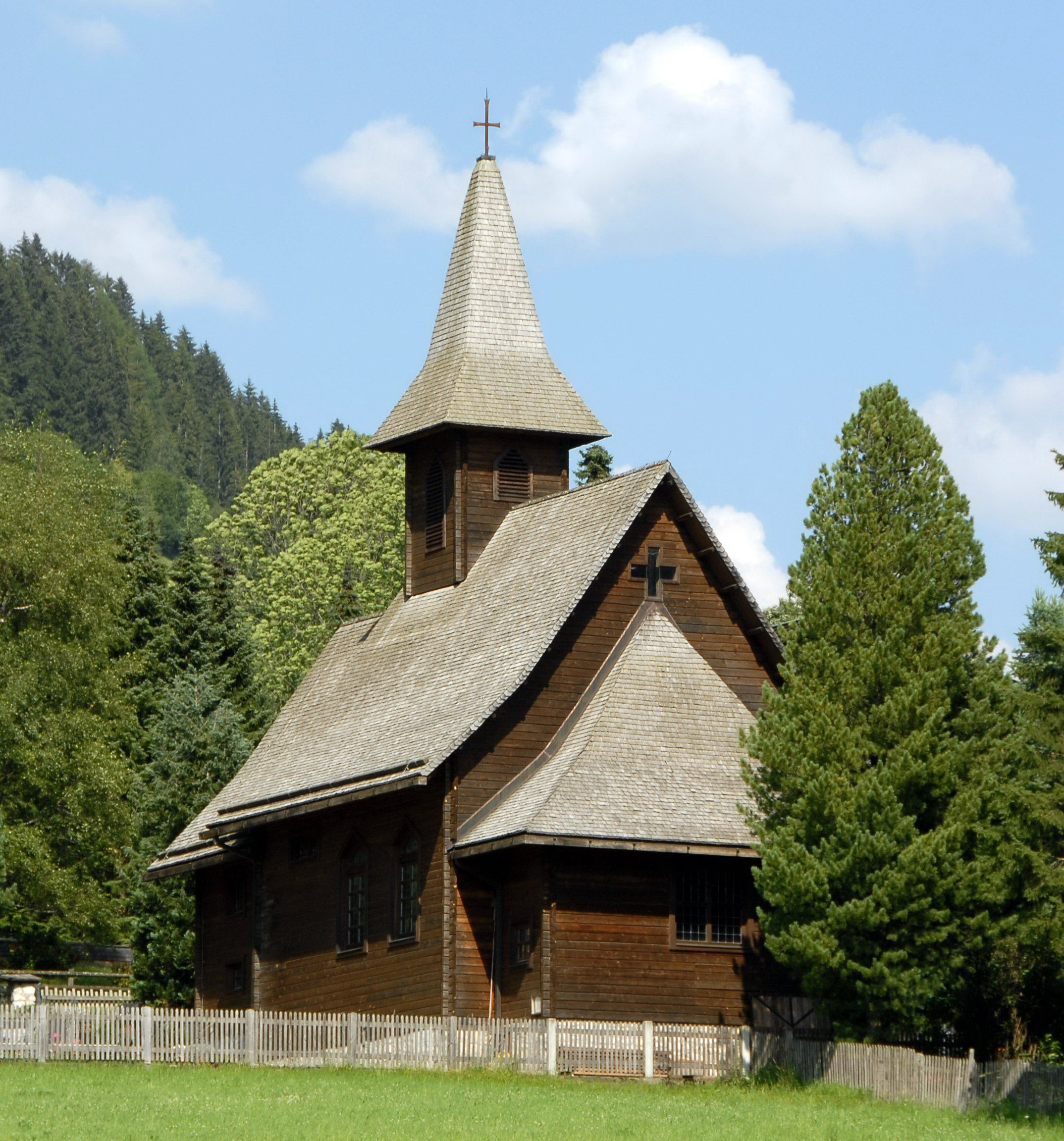 Protestant subsidiary church (planning by Switbert Lobisser) on Dorfstrasse, municipality Bad Kleinkirchheim, district Spittal an der Drau, Carinthia, Austria, EU